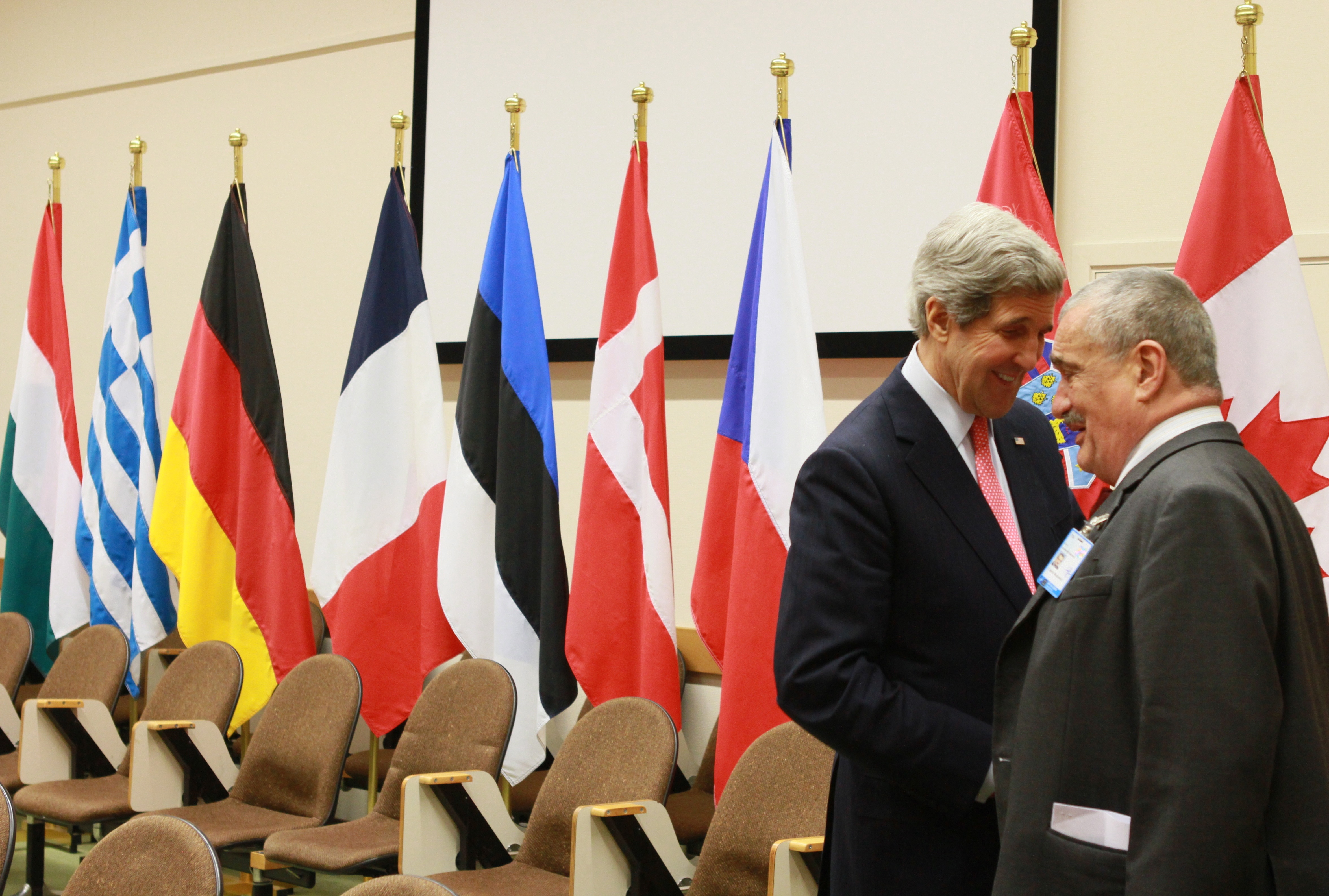 U.S. Secretary of State John Kerry meets with Czech Foreign Minister Karel Schwarzenberg at the NATO Foreign Ministerial in Brussels, Belgium on April 23, 2013. [State Department photo/ Public Domain]